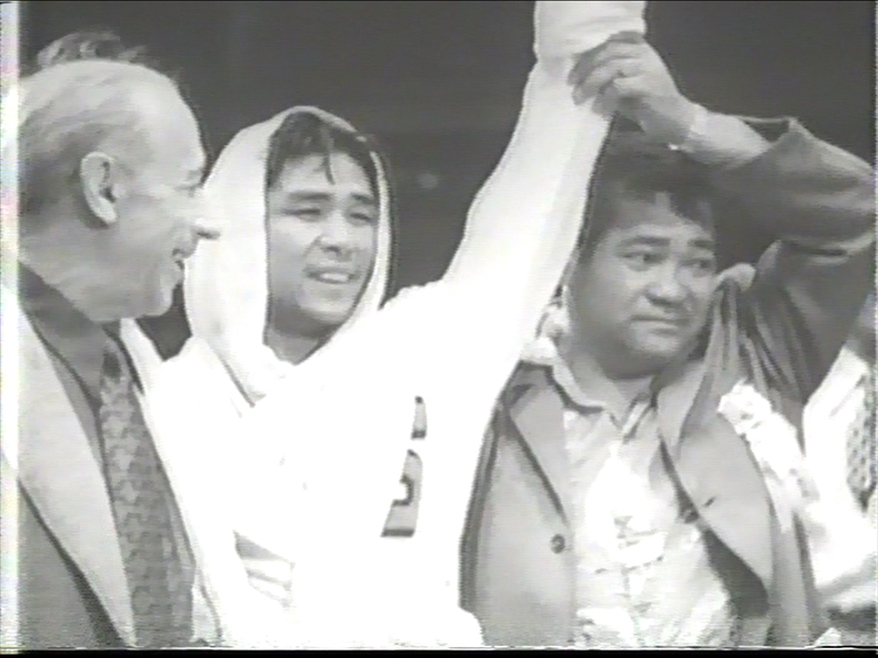 Yoshio Shirai in World flyweight titlematch in May 1952.